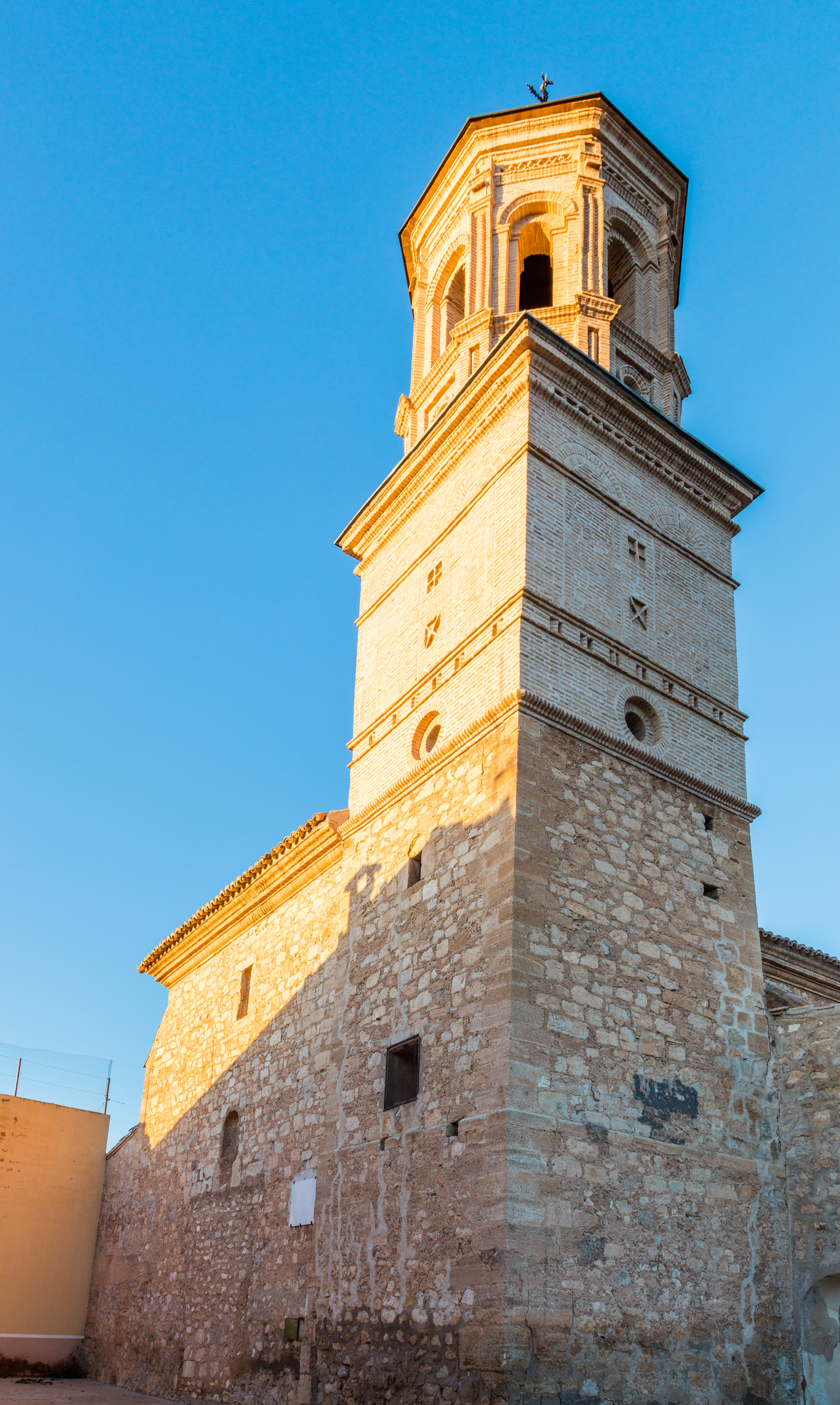 Church of St. Eulalia, Moneva, Saragossa, Spain